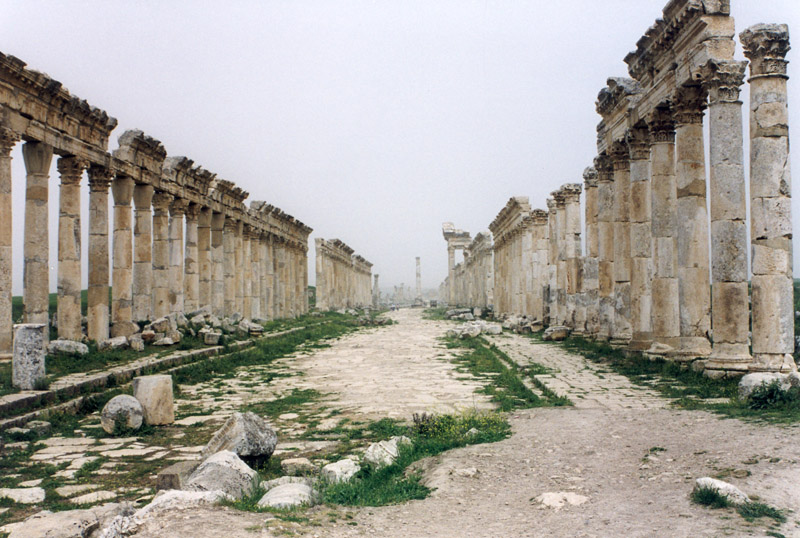 View of Apamea's columned street (Cardo Maximus), Syria, taken by the user in 2000.